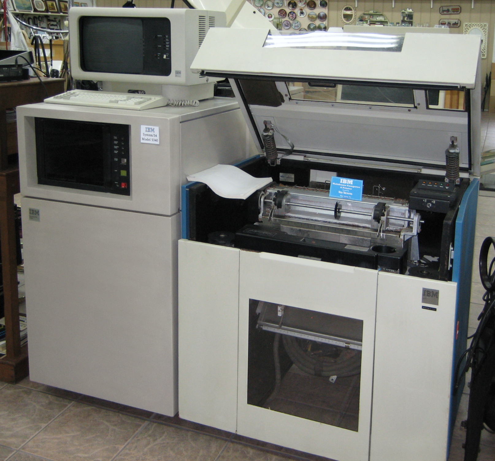 IBM System/34 computer and printer. It is located in the Isett Acres Museum, Huntington, Pennsylvania.